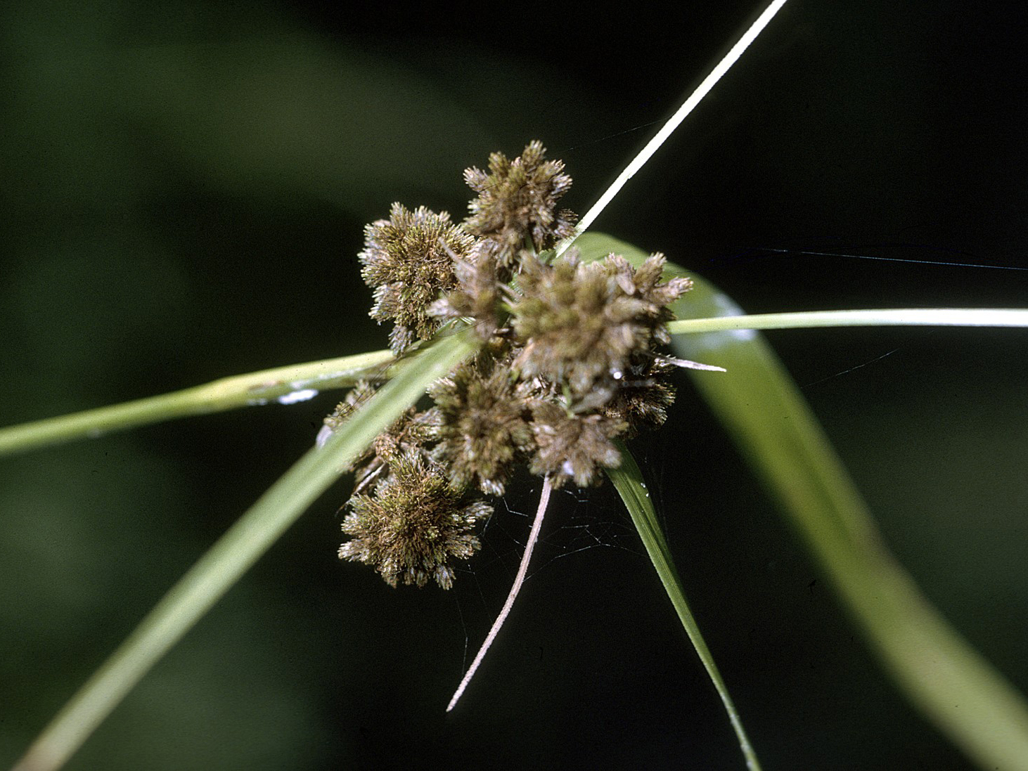 Scirpus georgianus Harper - Georgia bulrush